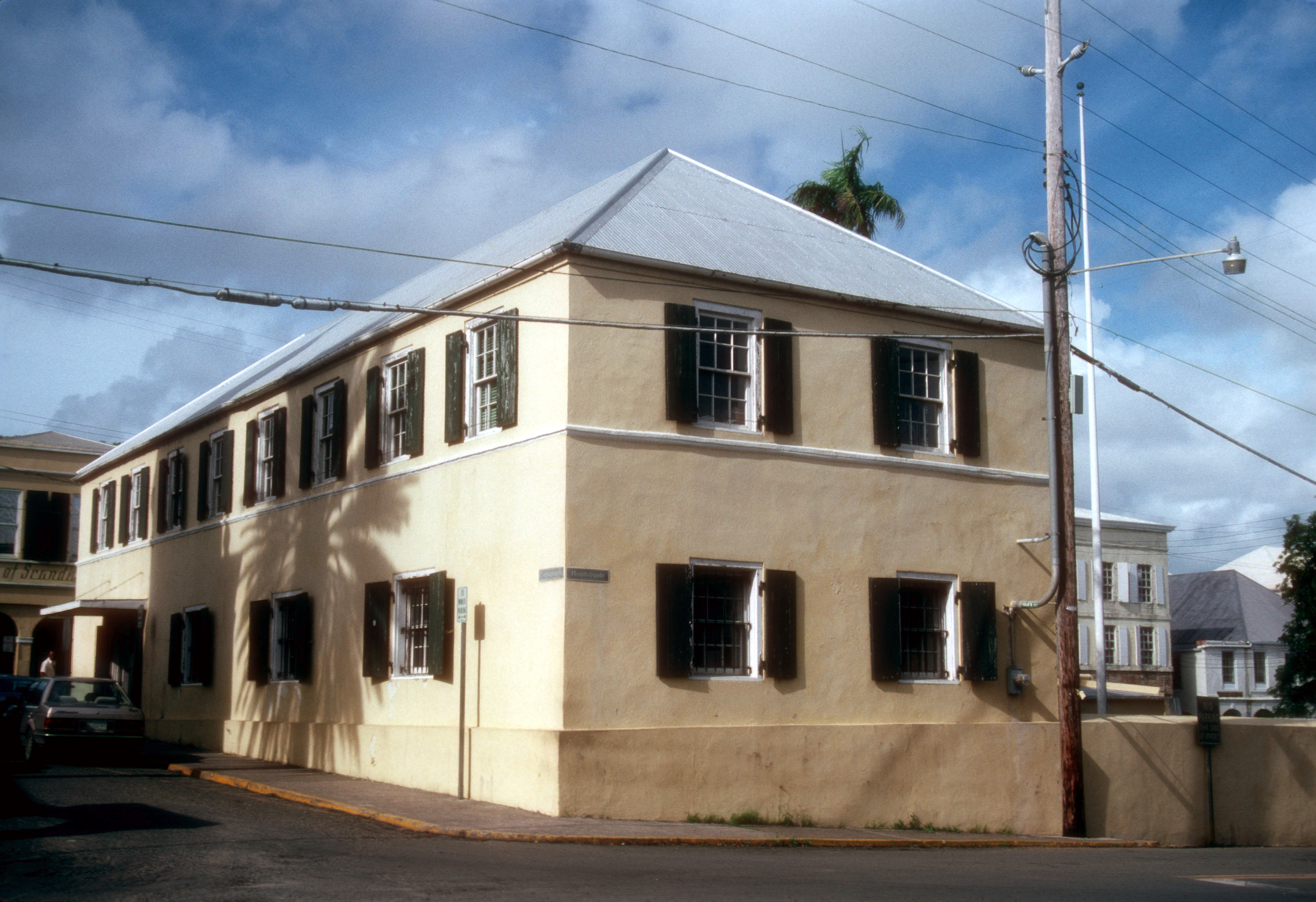 (1749); USED TO HOUSE PROVISIONS AND PERSONNEL; NOW USED AS THE POST OFFICE